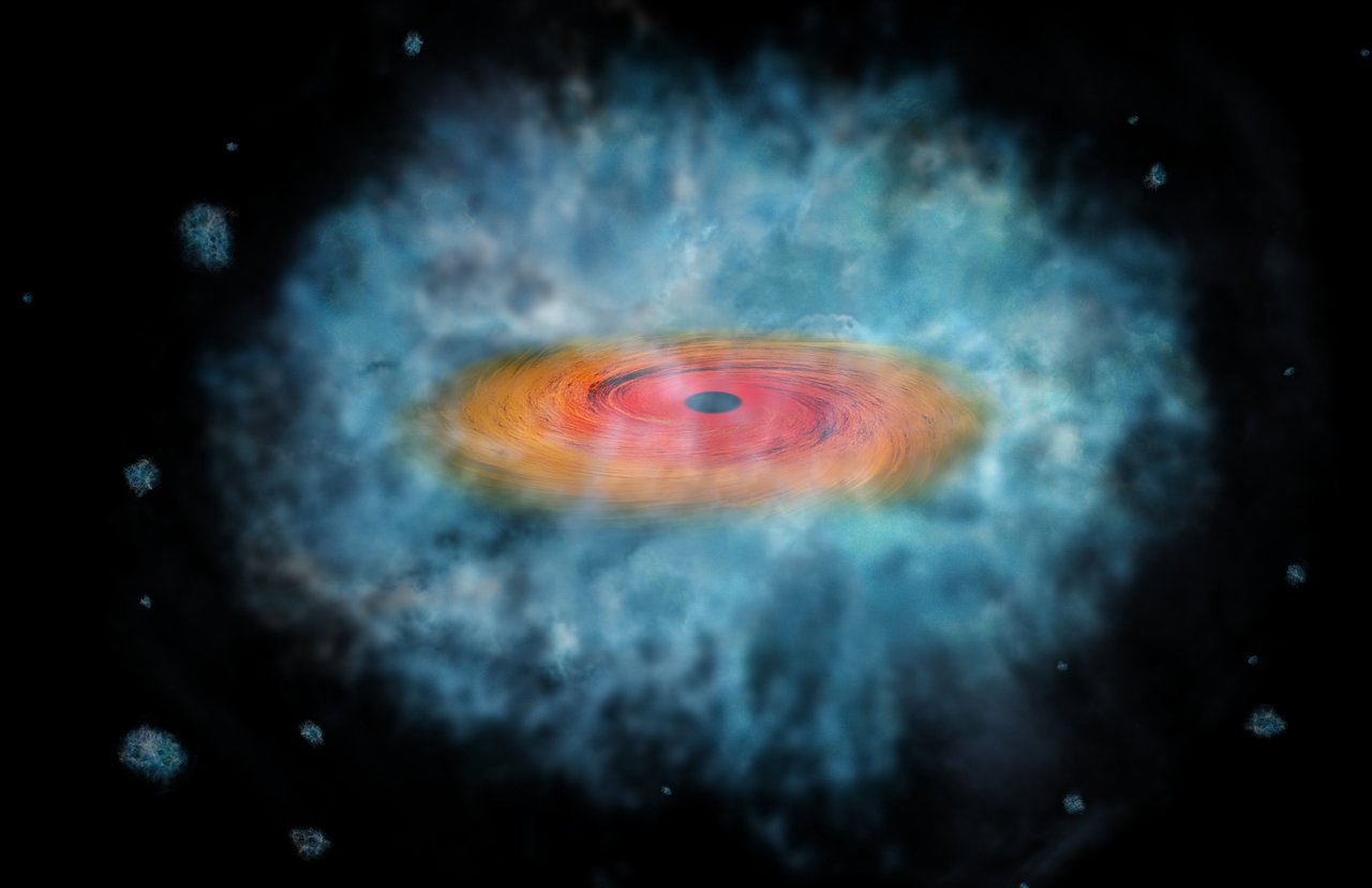 This artist’s impression shows a possible seed for the formation of a supermassive black hole. Two of these possible seeds were discovered by an Italian team, using three space telescopes: the NASA Chandra X-ray Observatory, the NASA/ESA Hubble Space Telescope, and the NASA Spitzer Space Telescope.